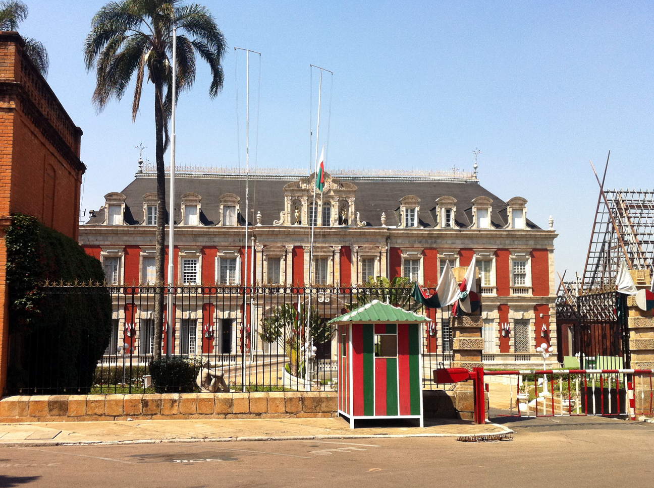 Ambohitsorohitra Palace, one of the main presidential offices, located in downtown Antananarivo, Madagascar